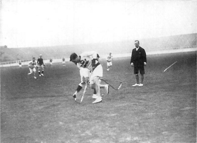 Lacrosse at the 1908 Summer Olympics. Shows Patrick Brennan going for a ground ball.